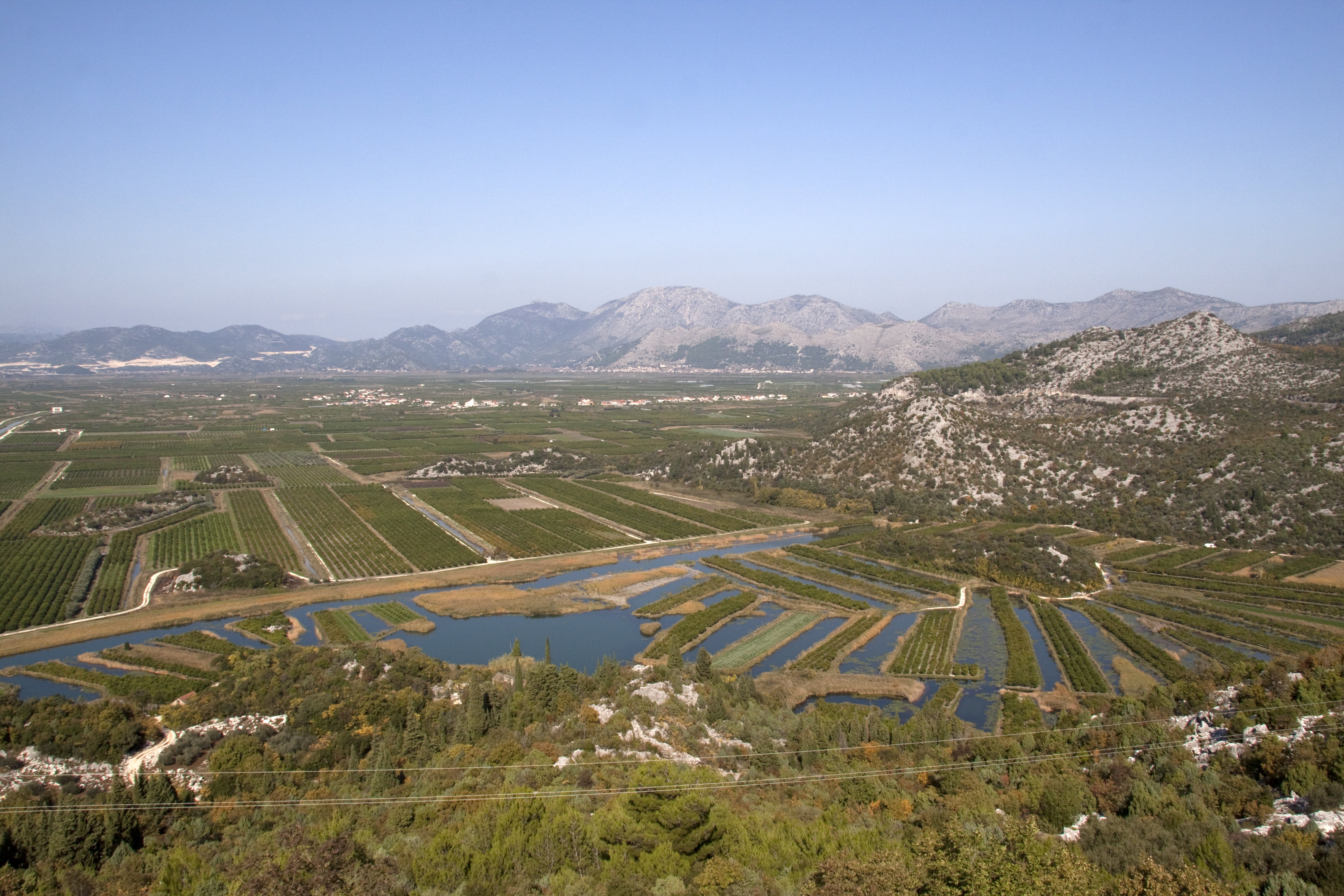 Near Metković, amazing arrangement of fields and irrigation channels.